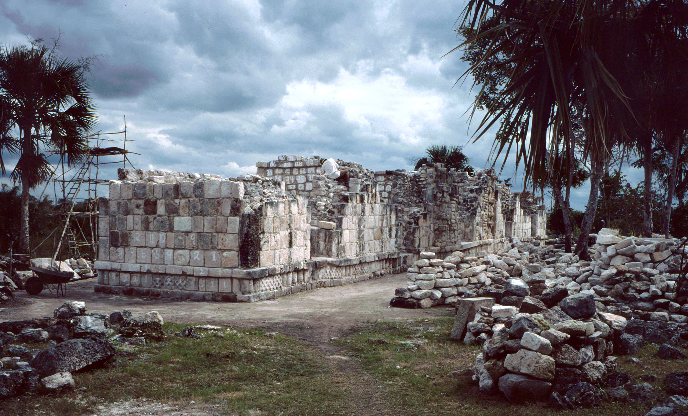 Culubá (near Tizimin), Yucatán, Mexico: building with Chenes-like façade